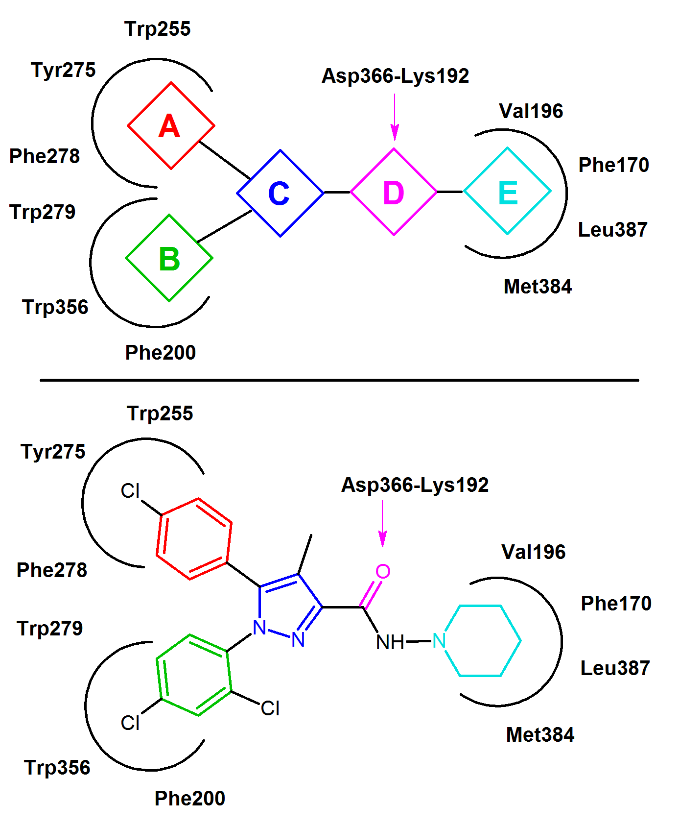 A general CB1 receptor inverse agonist pharmacophore model. Putative CB1 receptor amino acid side chain residues in receptor-ligand interaction are shown. A and B both constitute an aromatic ring connected to a central core unit C. A hydrogen bond acceptor unit D interconnects unit C with a lipophilic moiety E. Rimonabant is taken as a representative example below. The applied colors indicate the mutual properties with the general CB1 pharmacophore.